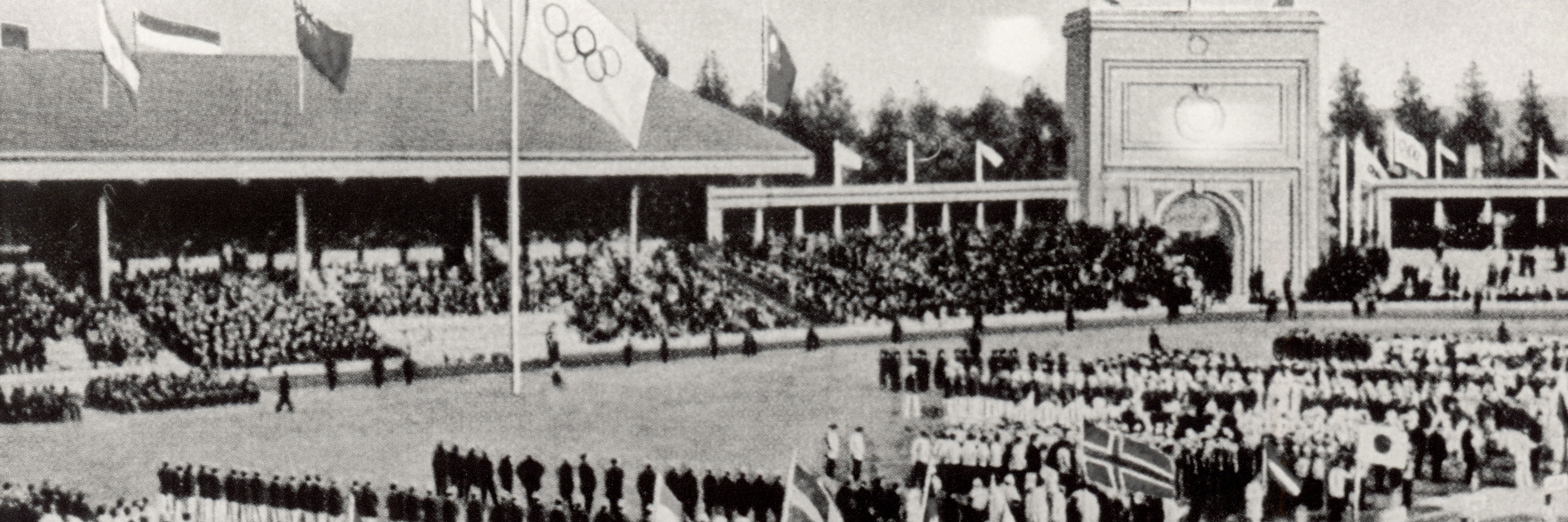 This is a photo taken during the 1920 Olympics. The photograph shows a large crowd as well as the Olympic flag